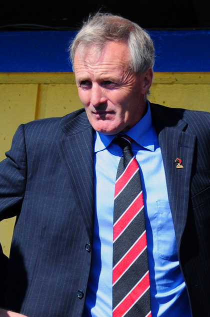 Photo of rugby coach, Kieran Crowley, taken at Thunderbird Stadium in Vancouver, BC, Canada. Wilson Wong photo.